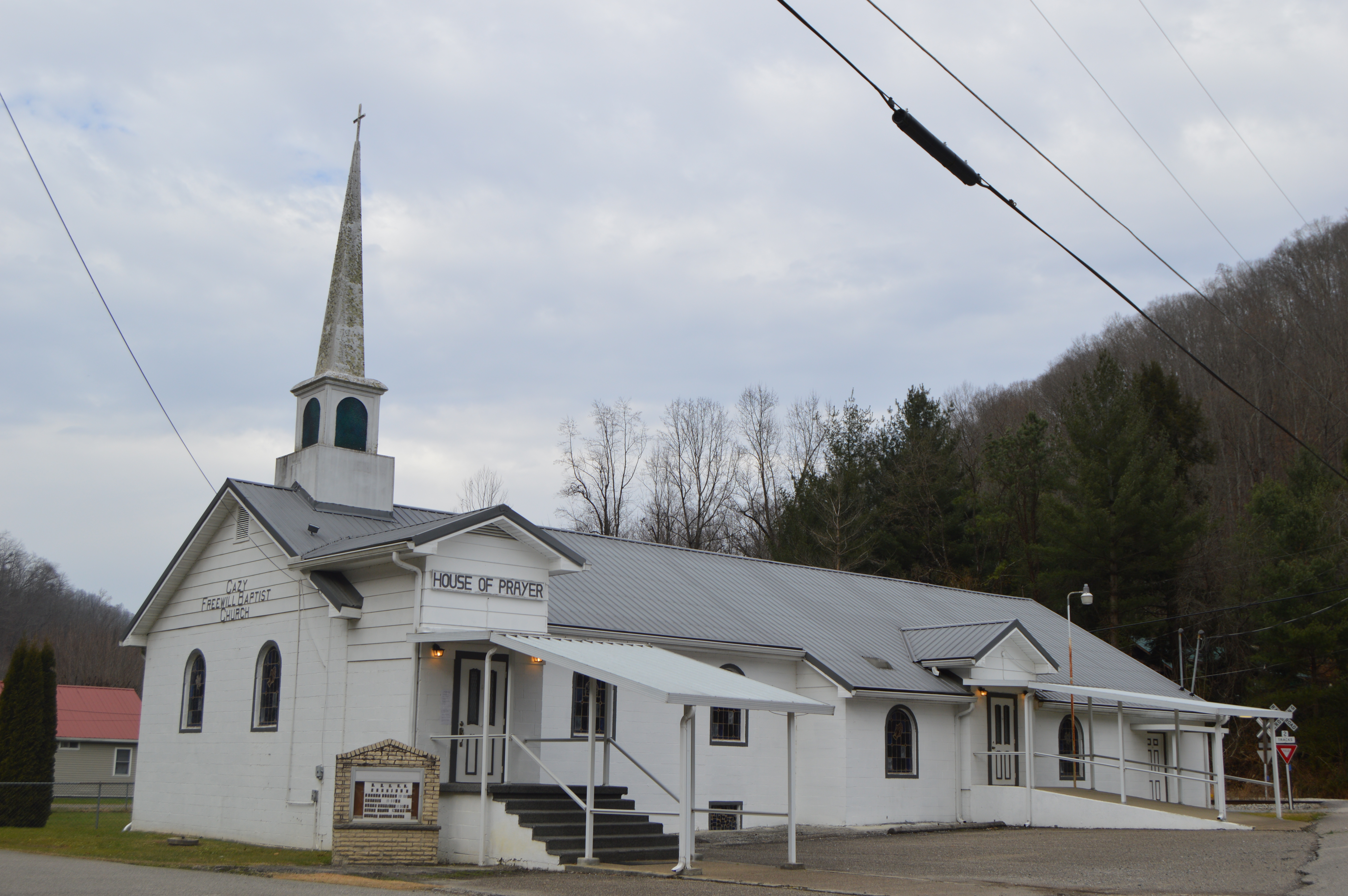 Front and southeastern side of the Cazy Freewill Baptist Church, located on Harold Street at Cazy in Boone County, West Virginia, United States.